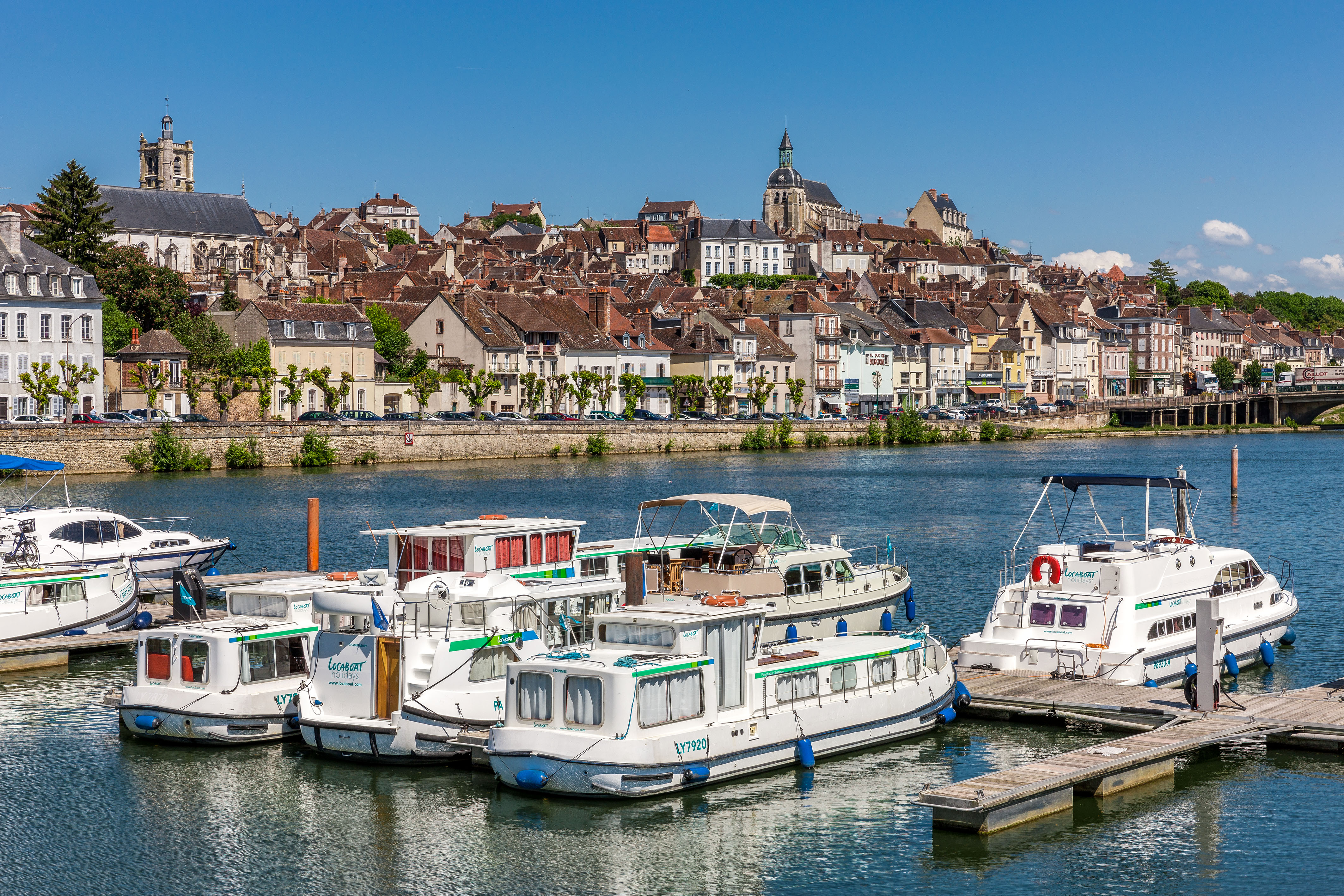 Yonne (89) Joigny, located on the banks of the Yonne, wide river that served as both protection and communication channel